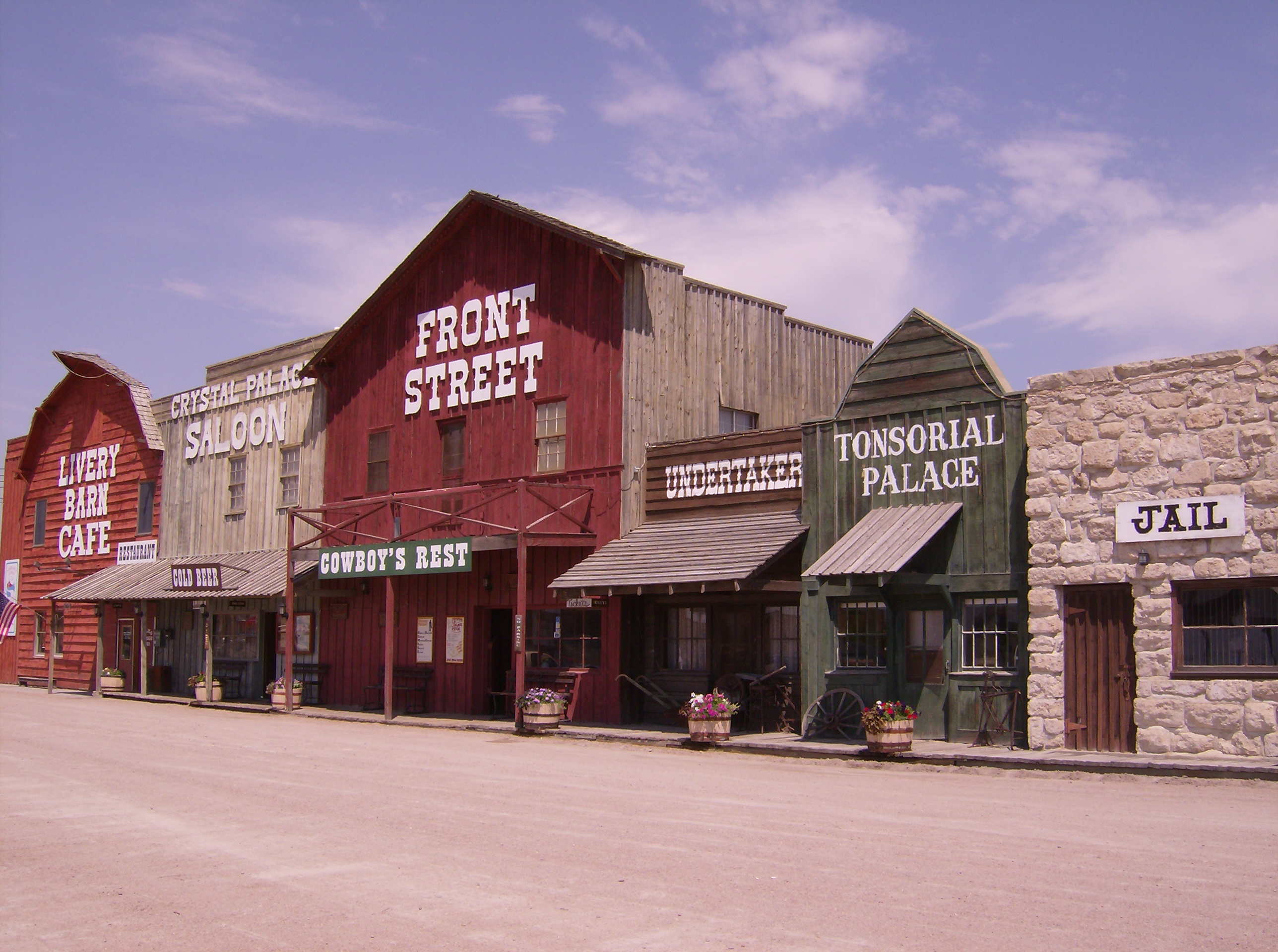 Stores on Front Street in Ogallala, Nebraska.